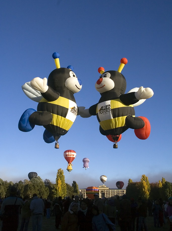 These hot air balloons are part of the annual Canberra Balloon Fiesta. It was a huge challenge to get up at 5.30am to watch the balloons take off. The -2 degrees Celsius temperatures didn't help, but this festival is worth getting up for! Hot air baloons, Canberra Baloon Fiesta, Australia, 2006.